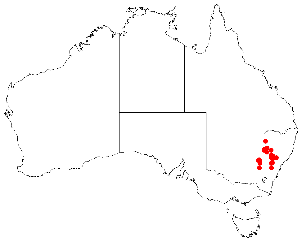 Acrotriche rigida Occurrence data from Australasian Virtual Herbarium downloaded 10 November 2018 from